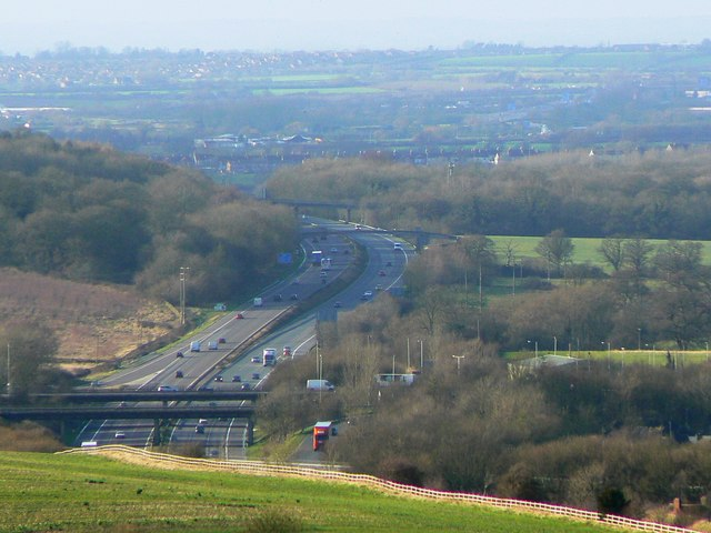 A view west from the Ridgeway, Liddington, Swindon Junction 15 of the M4 is visible first in the lower left corner of the image at SU191809 with the motorway maintenance depot to the right of the junction. The next bridge is a footbridge at SU179812 carrying the footpath from Coate Water 252486 to Chiseldon 306779. The last bridge visible going away from the viewpoint is the Hodson Road bridge at SU174812 from where this image was taken: 280683